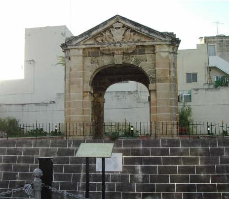 Pinto's Arch, under which he used to relax and watch his town, inaugurating his 31st birthday, in Qormi